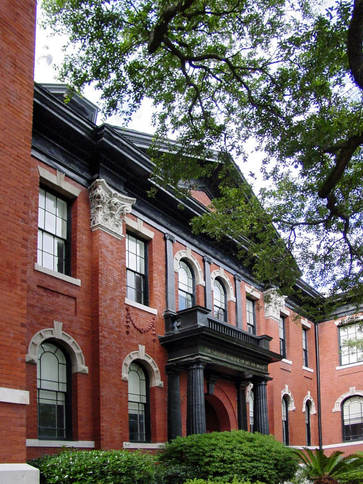 edit of a commons pic. Edited to lighten dark elements and straighten up perspective.